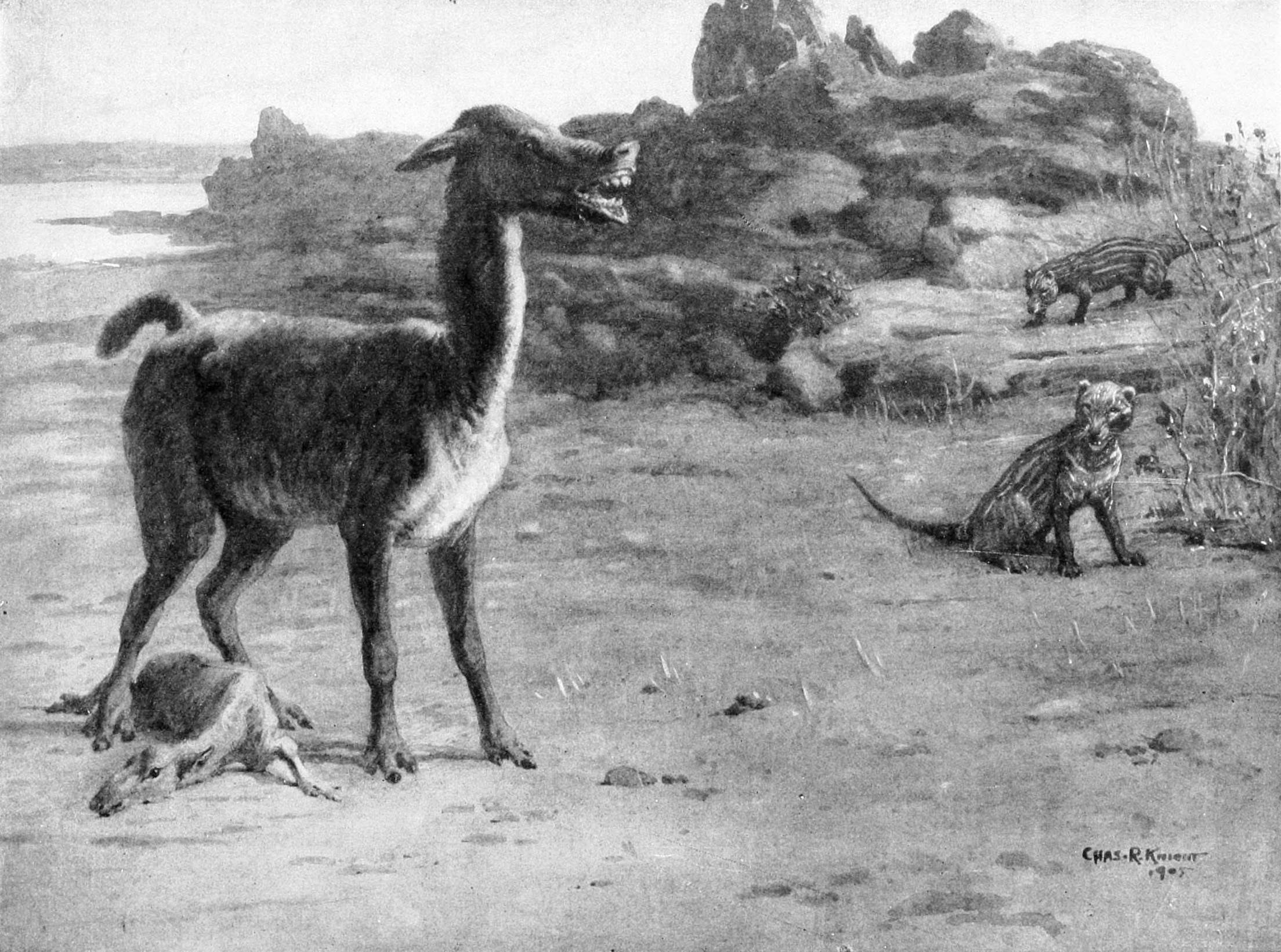 Life restoration of Theosodon garretorum (left) and Borhyaena tuberata (right) from W.B. Scott's "A History of Land Mammals in the Western Hemisphere." New York: The Macmillan Company.